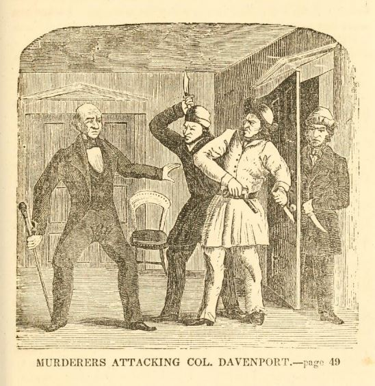 Banditti Of The Prairies: Murders Attacking Colonel Davenport